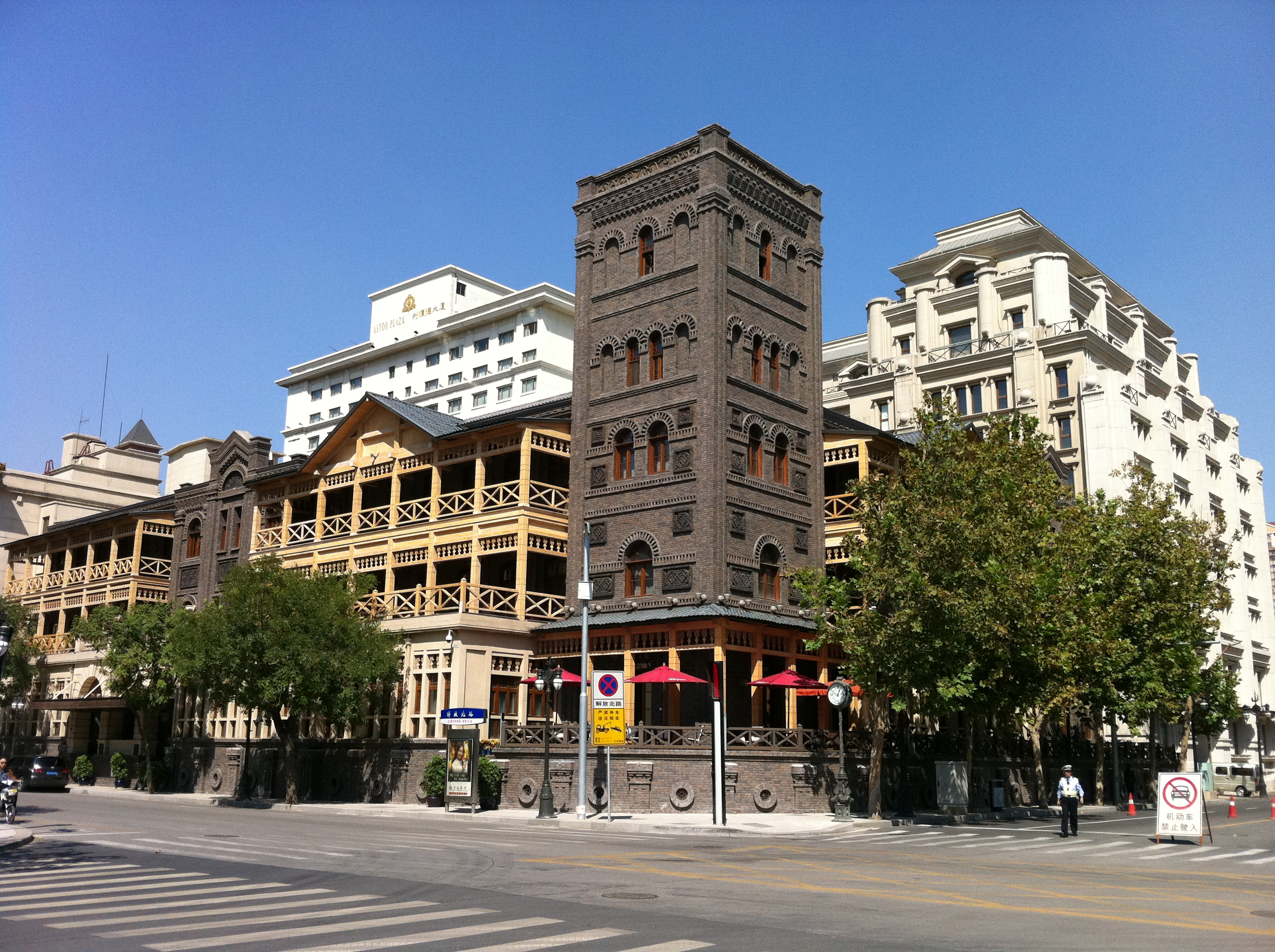 The Astor House Hotel in Tianjin